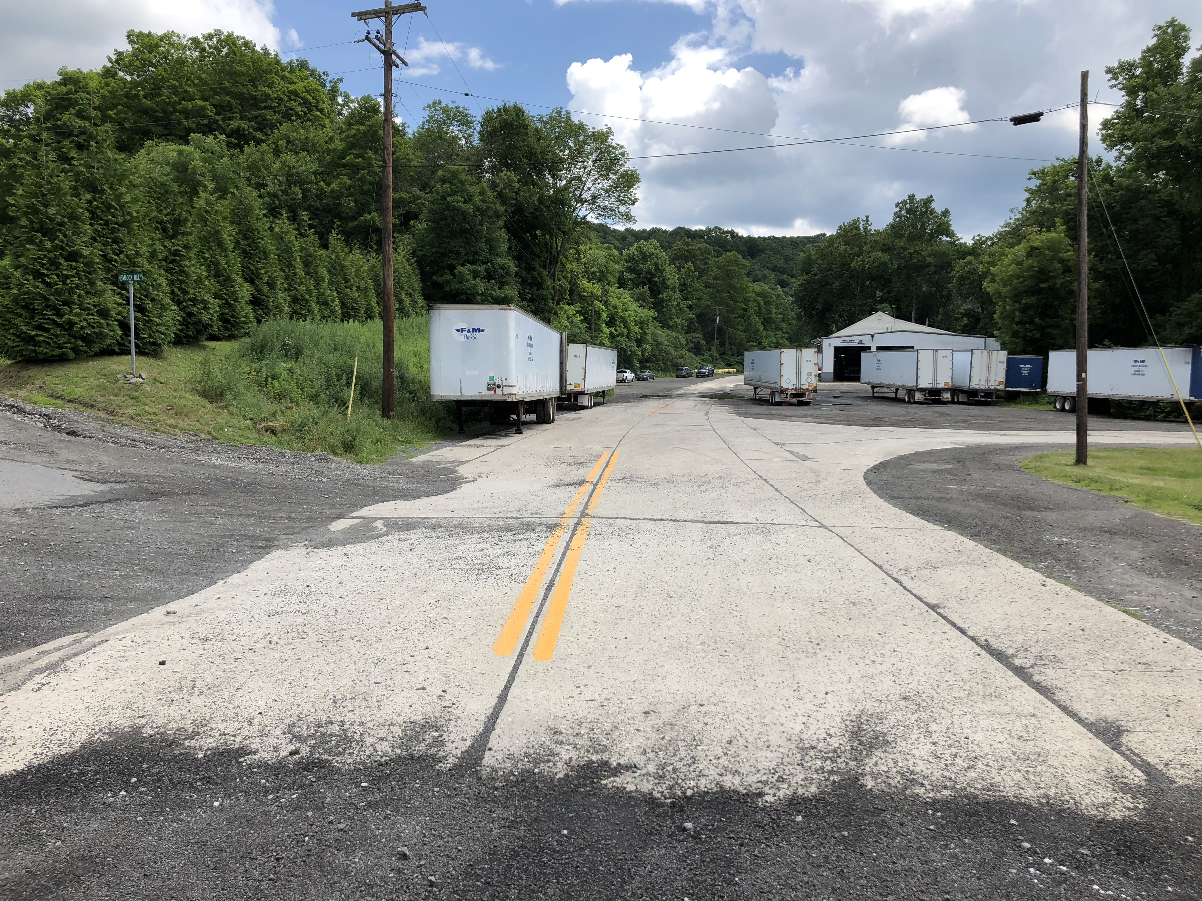 View south along New Jersey State Route 163 (Lackawanna Road) at Hemlock Hill Lane in Knowlton Township, Warren County, New Jersey